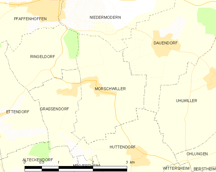 Map of French municipality